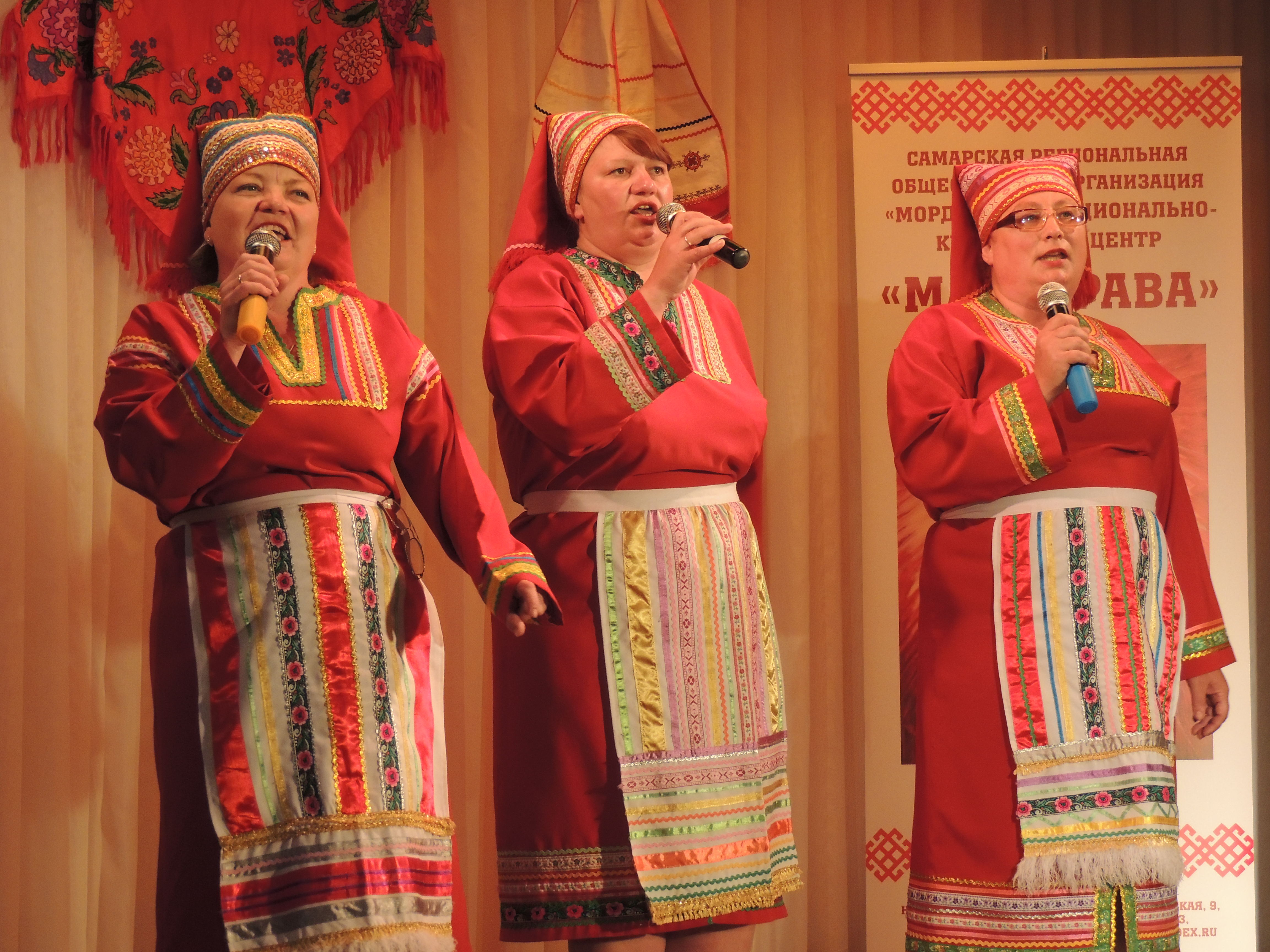 The folklore collective «Novoe selo» (erz. «Od Velle») is the village of Novaya Karmala, Koshkinsky district of the Samara region. XIX Regional festival «Spring of Mastorava» (erz. «Mastoravanj tundo»). «Friendship House of Peoples», Samara. May 21, 2017.